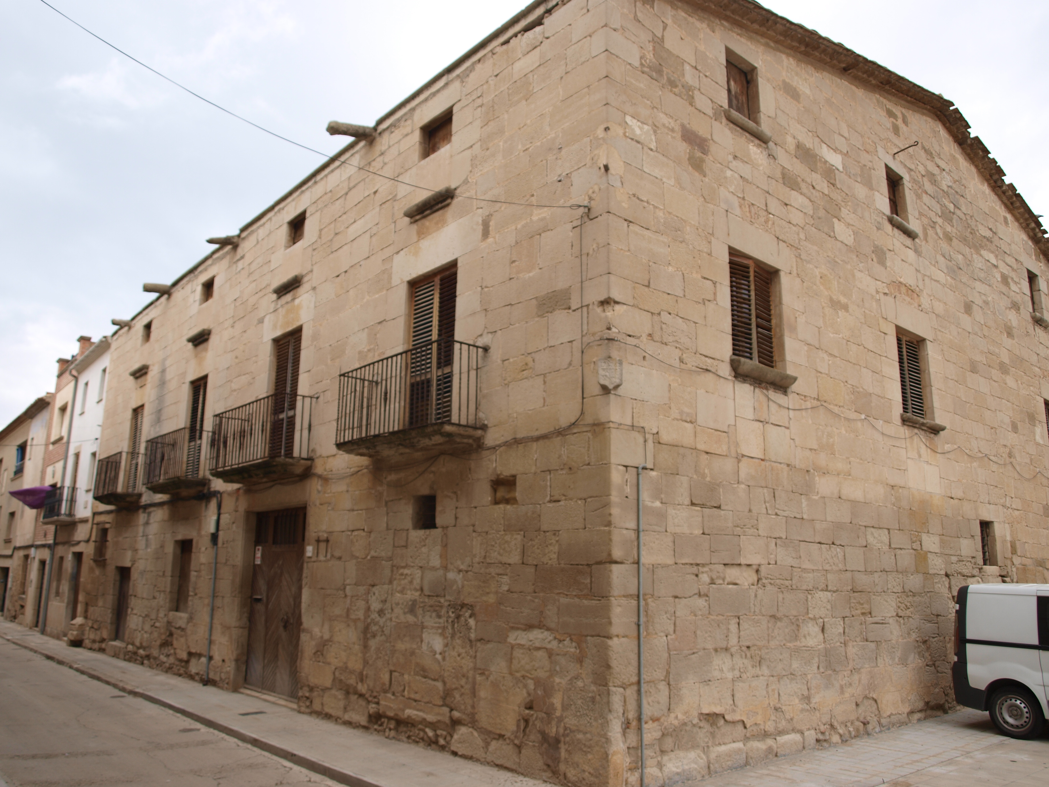 Historical building known as Cal Castell, in El Poal (Lleida, Spain)